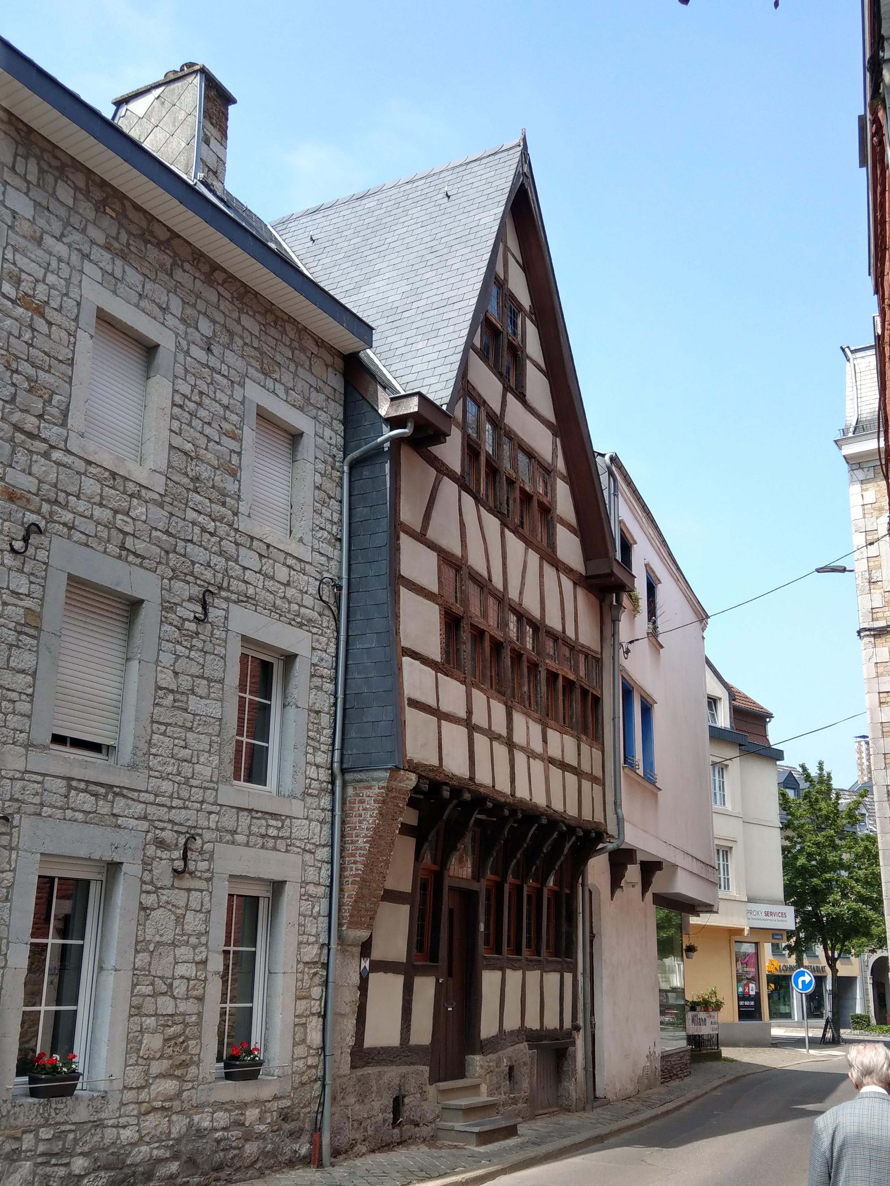 Gable house built in 1610